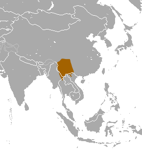 Lowe's Shrew (Chodsigoa parca) range